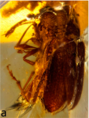 Burmonyx zigrasi, holotype. Habitus, left lateral (a)